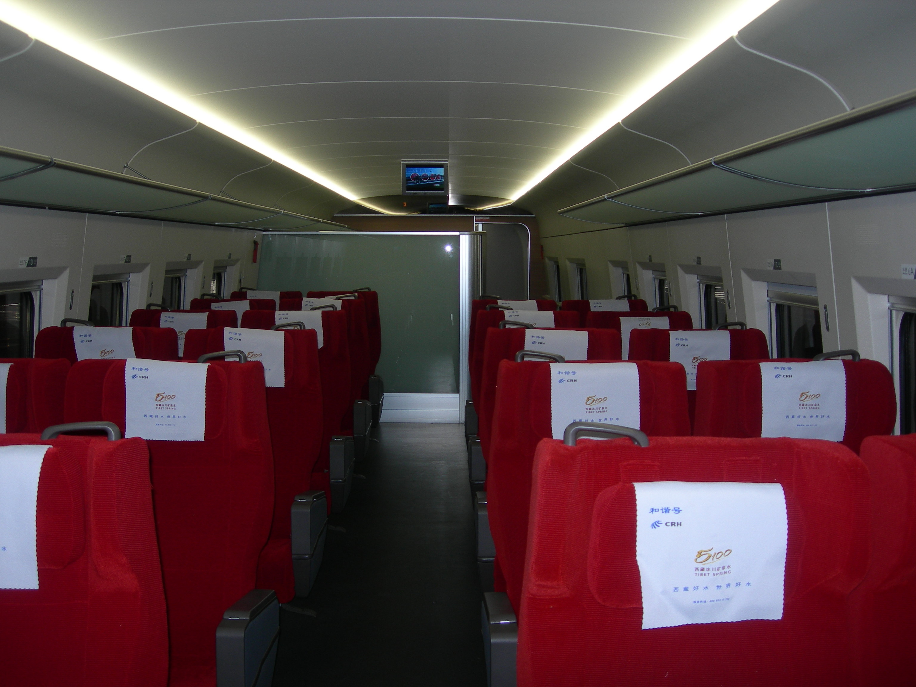 First class seating in trains serving the China Railways Highspeed Shanghai-Hangzhou Dedicated Passenger Railway.